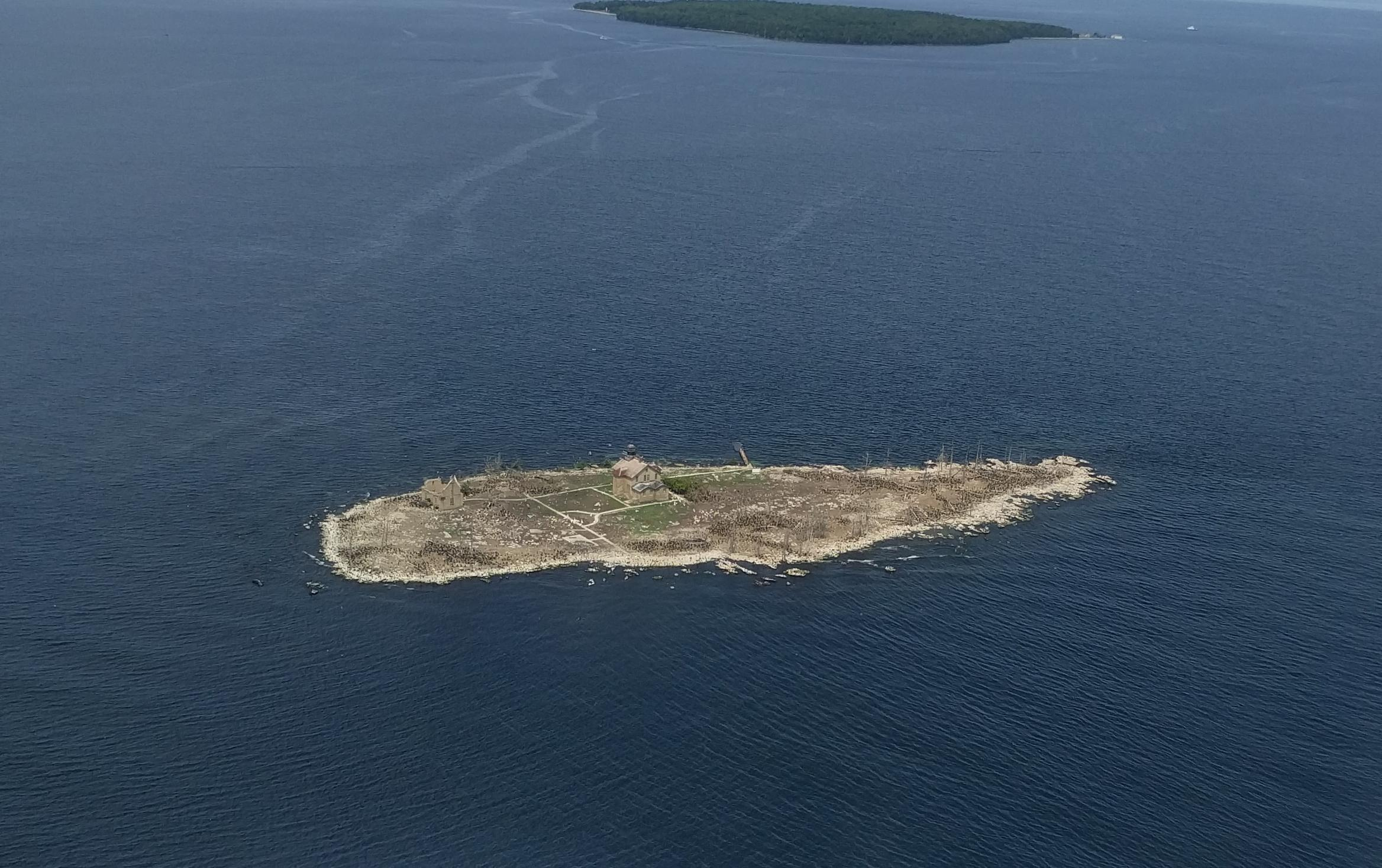 Pilot Island from the air, with Plum Island in the background